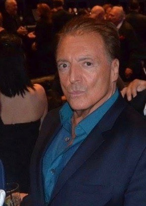 Armand Assante at a red carpet movie screening in Chicago.